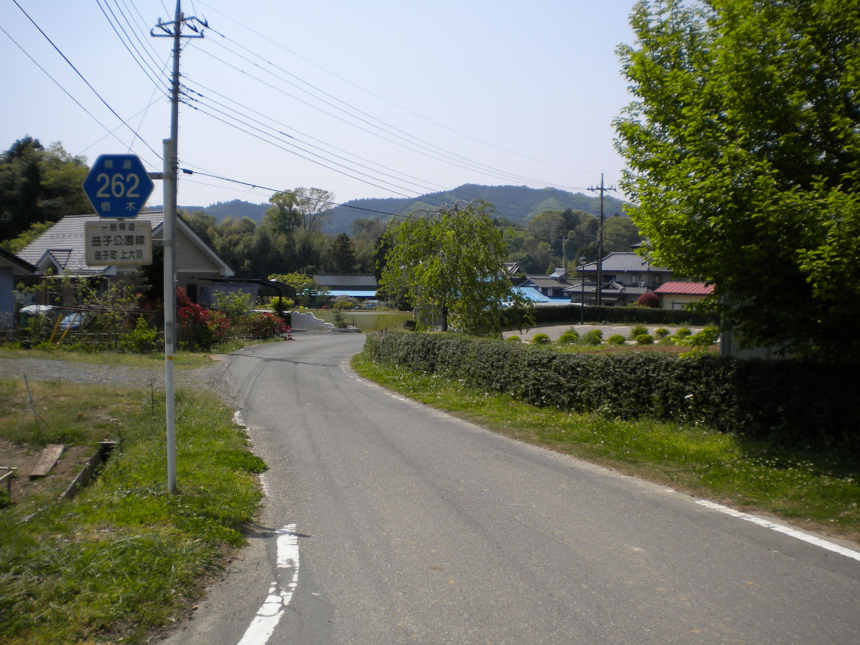 The Tochigi Prefectural Road Route 262 in Kamioba, Mashiko Town